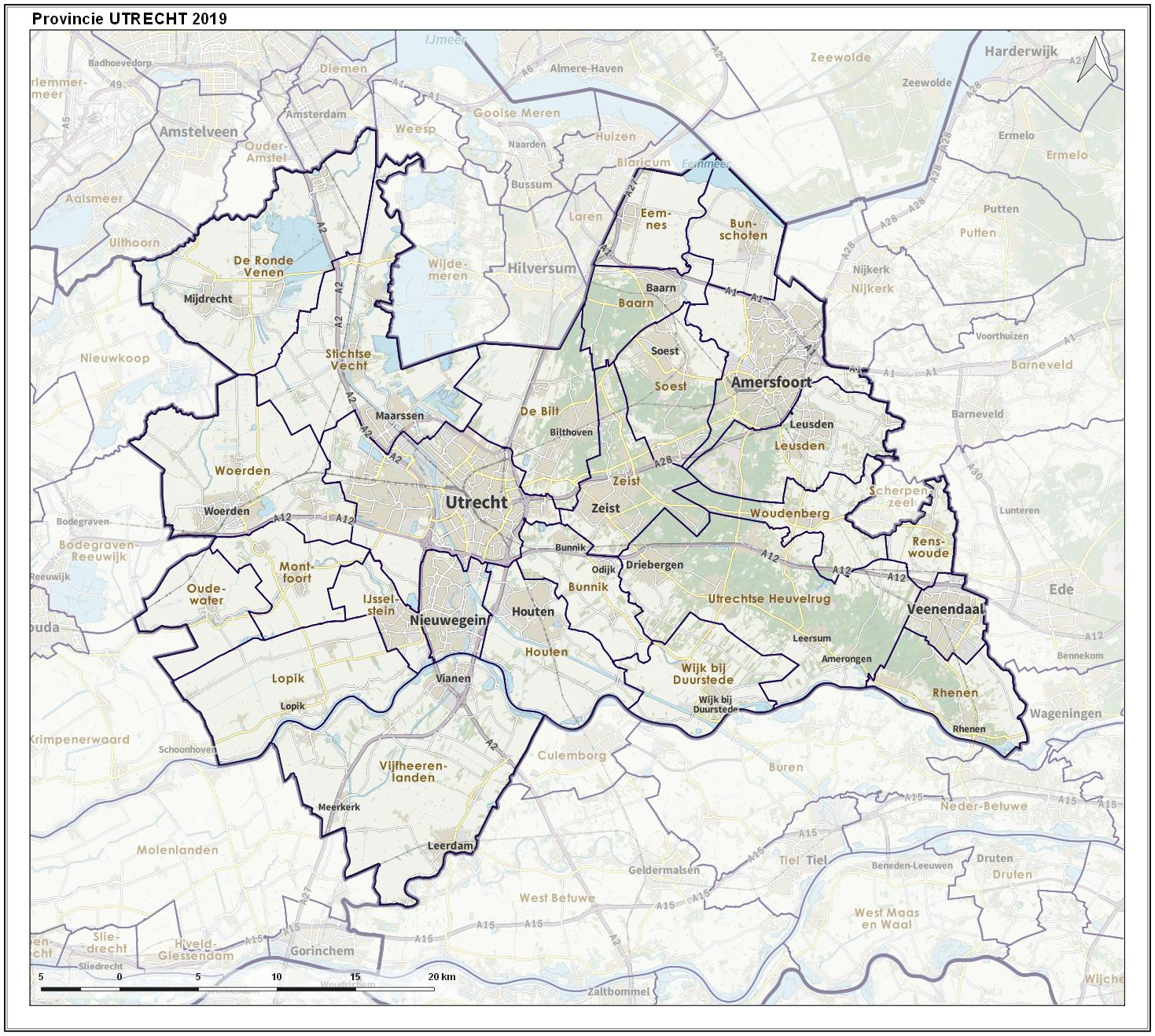 Overview map of the province, including municipal borders, largest places and major infrastructure.